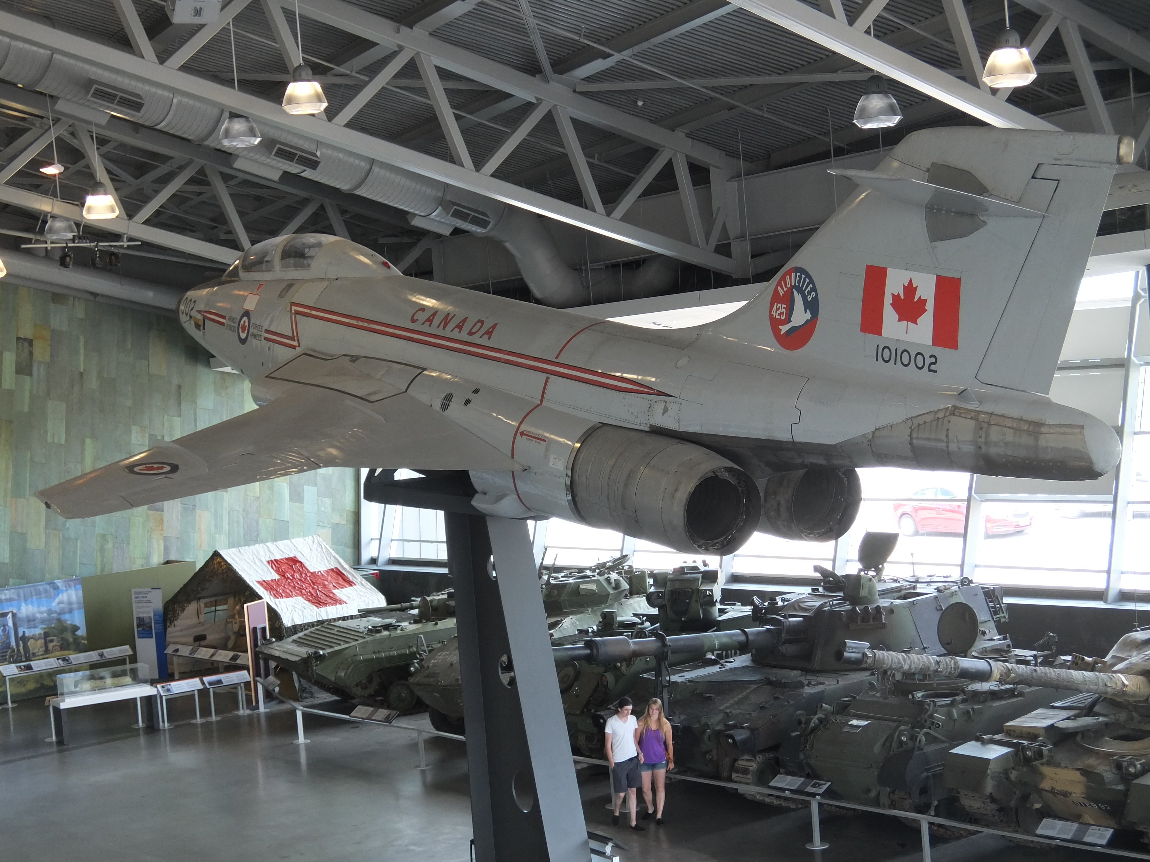 The CF 101B Voodoo aircraft suspended overhead in the Libreton Gallery. Detailed notes about the aircraft appeared earlier in this album. So here is a view of the aircraft taken from aircraft level, from the viewing balcony at the first level. (Ottawa, Canada, June 2015)